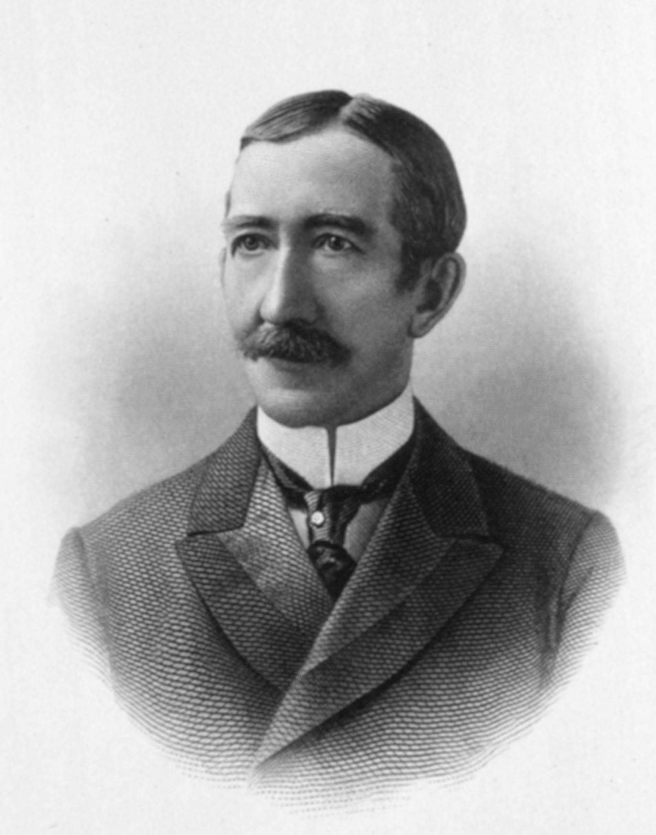 Frank Gay Clarke, US Representative from New Hampshire